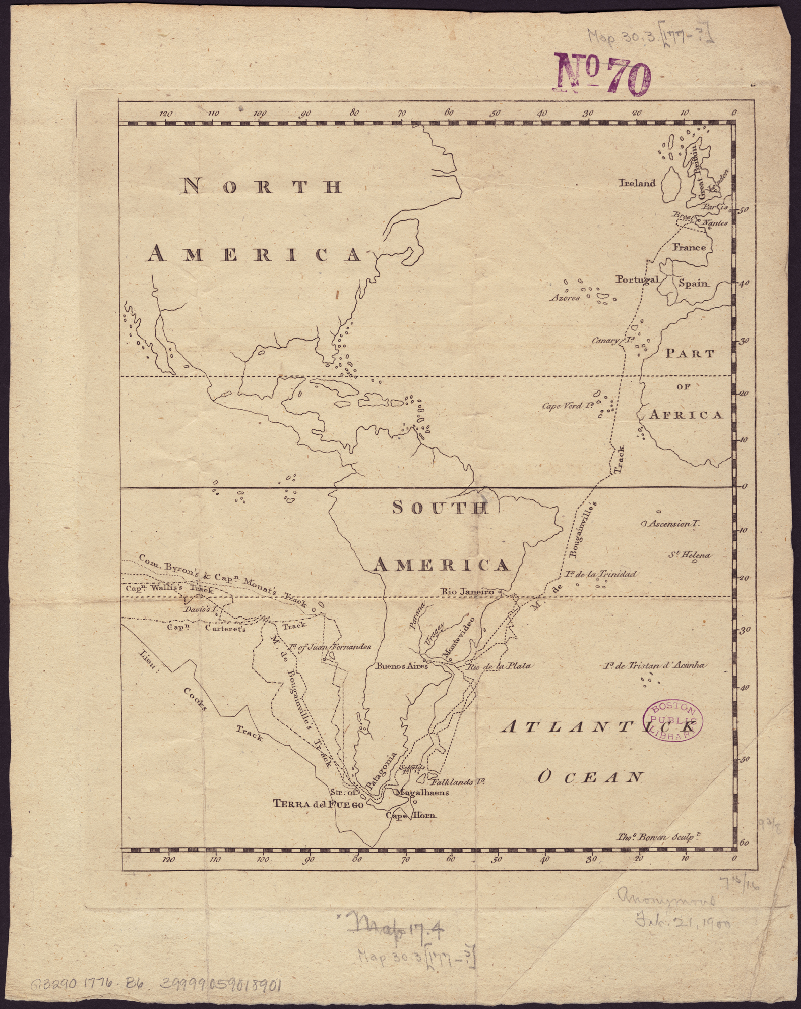 Zoom into this map at . Author: Bowen, Thomas Date: 1776 Location: America, Western Hemisphere Dimension: 24x62cm Scale: [ca. 1:75,000,000] Call Number: G3290 1776 .B6